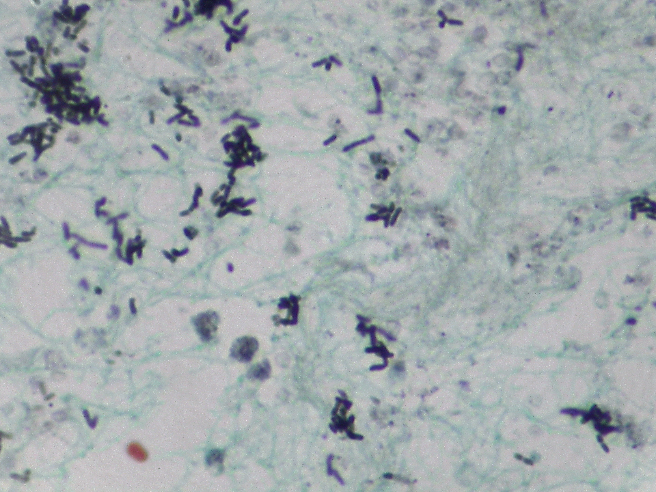 Geotrichum candidum reproduces by segmentation of hyphae into arthrospores with straight or rounded ends as seen here with the GMS stain.